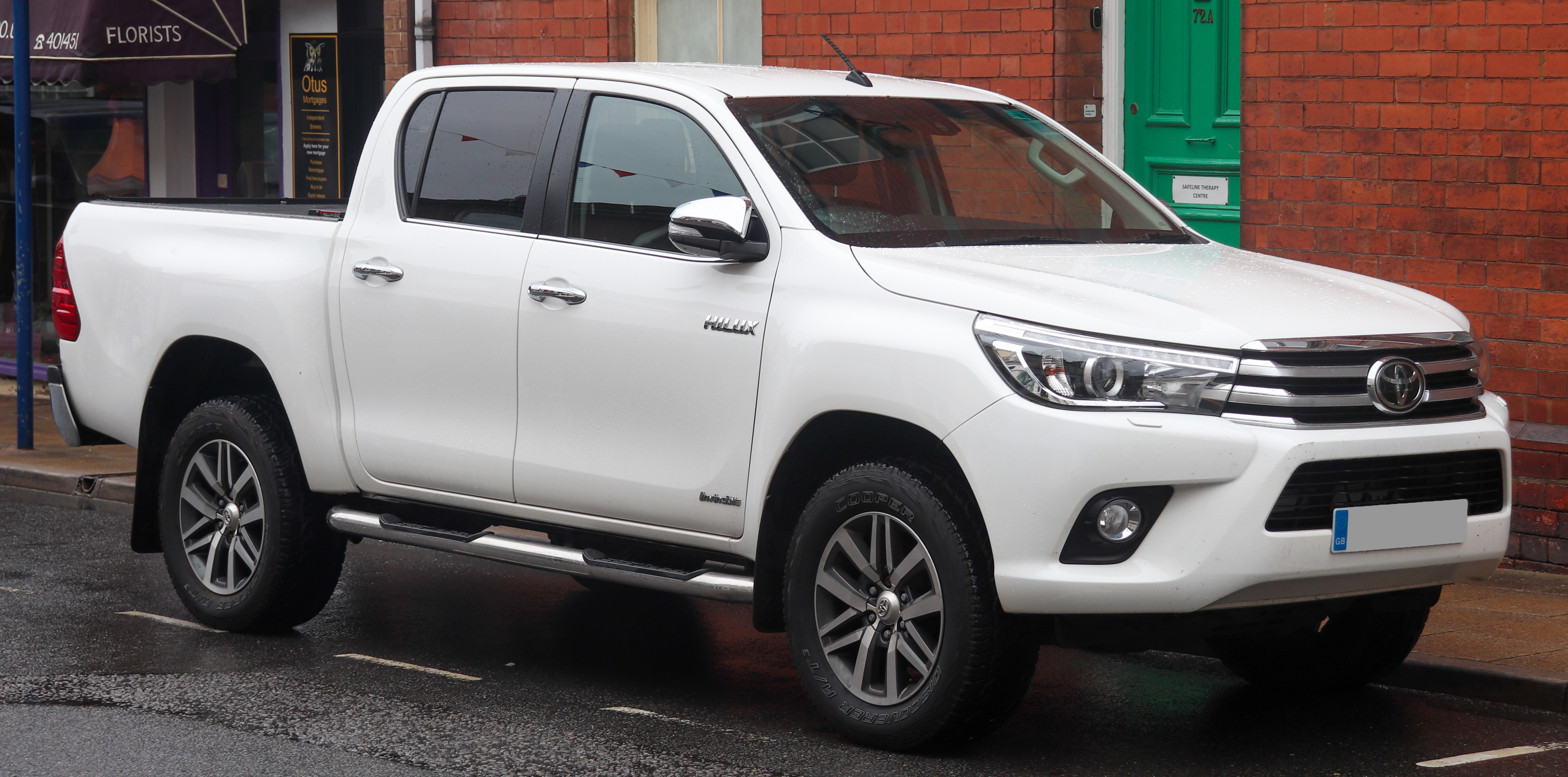 2016 HiLux Invincible D-4D 4WD 2.4 Front Taken in Warwick